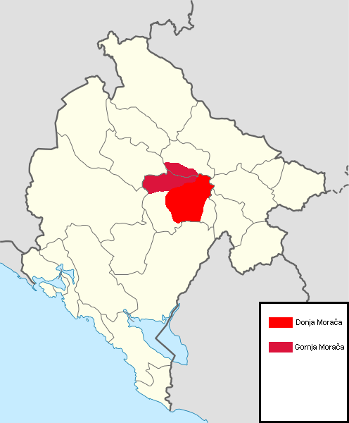 This is map of Montenegrin tribe Morača.